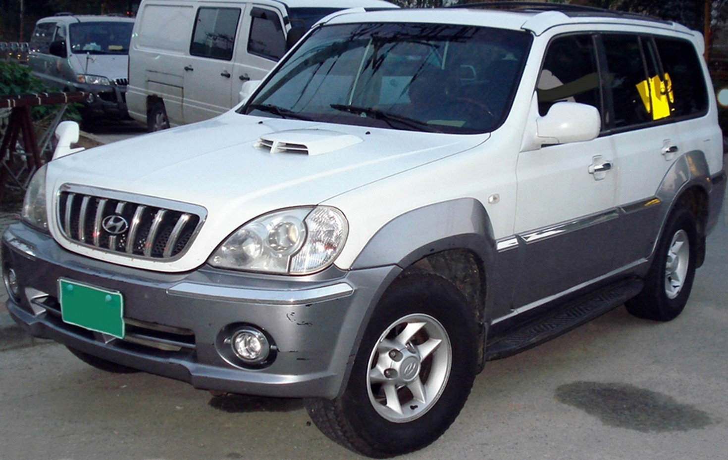 Hyundai Terracan